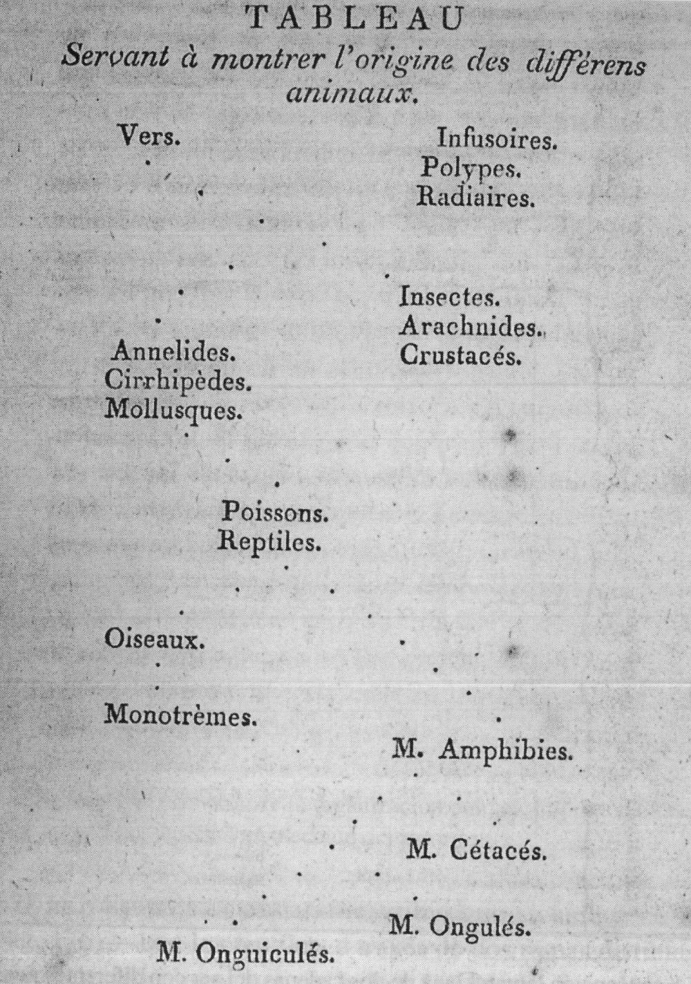 A schematic exemplar of the theory of evolution of Jean-Baptiste de Lamarck